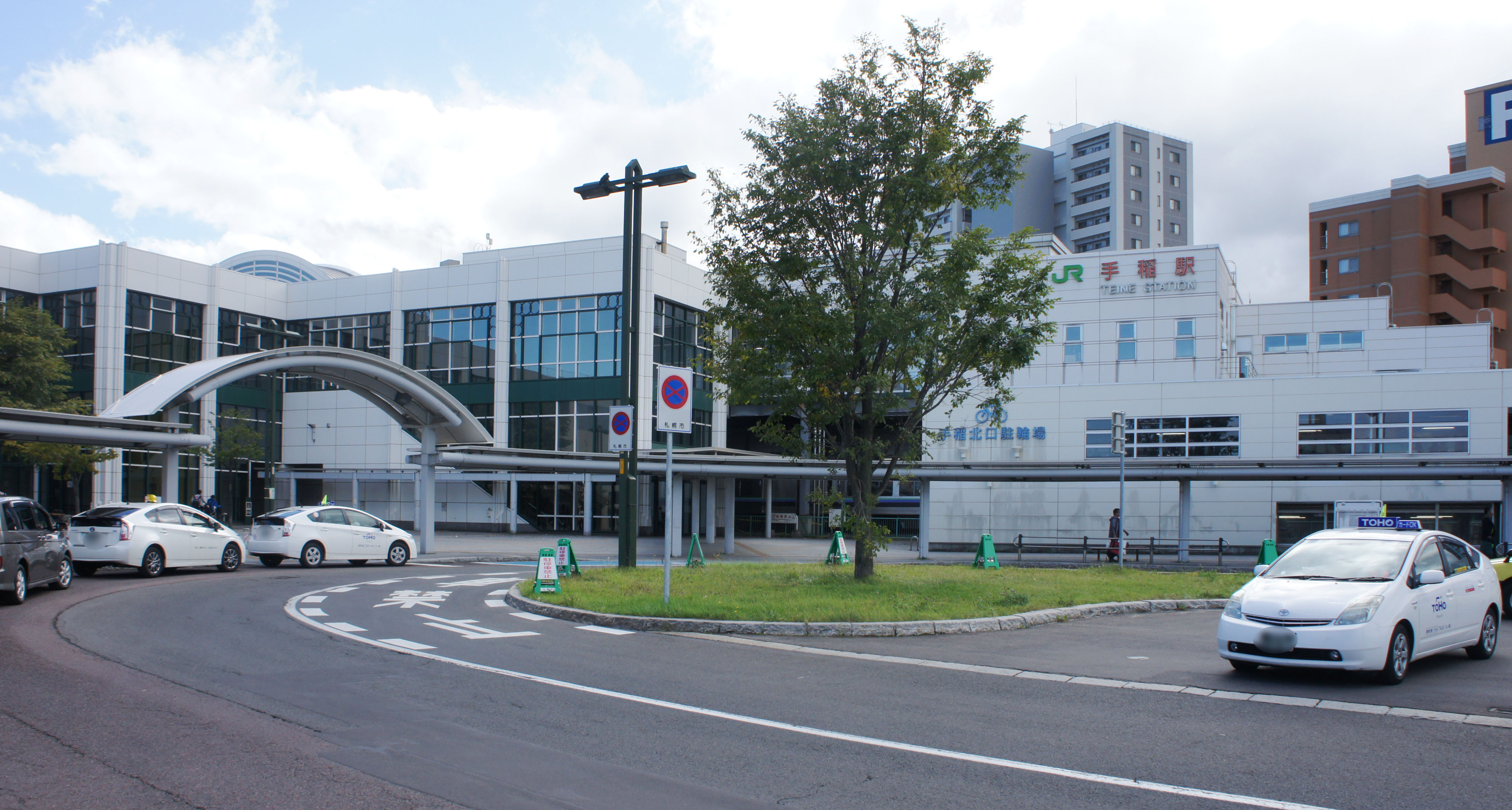 North Exit of JR Hakodate-Main-Line Teine Station